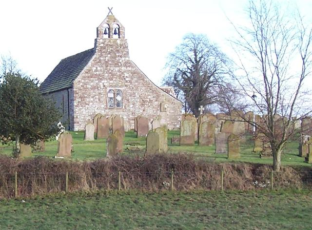 Aikton Church. Small but probably packed in the old days.